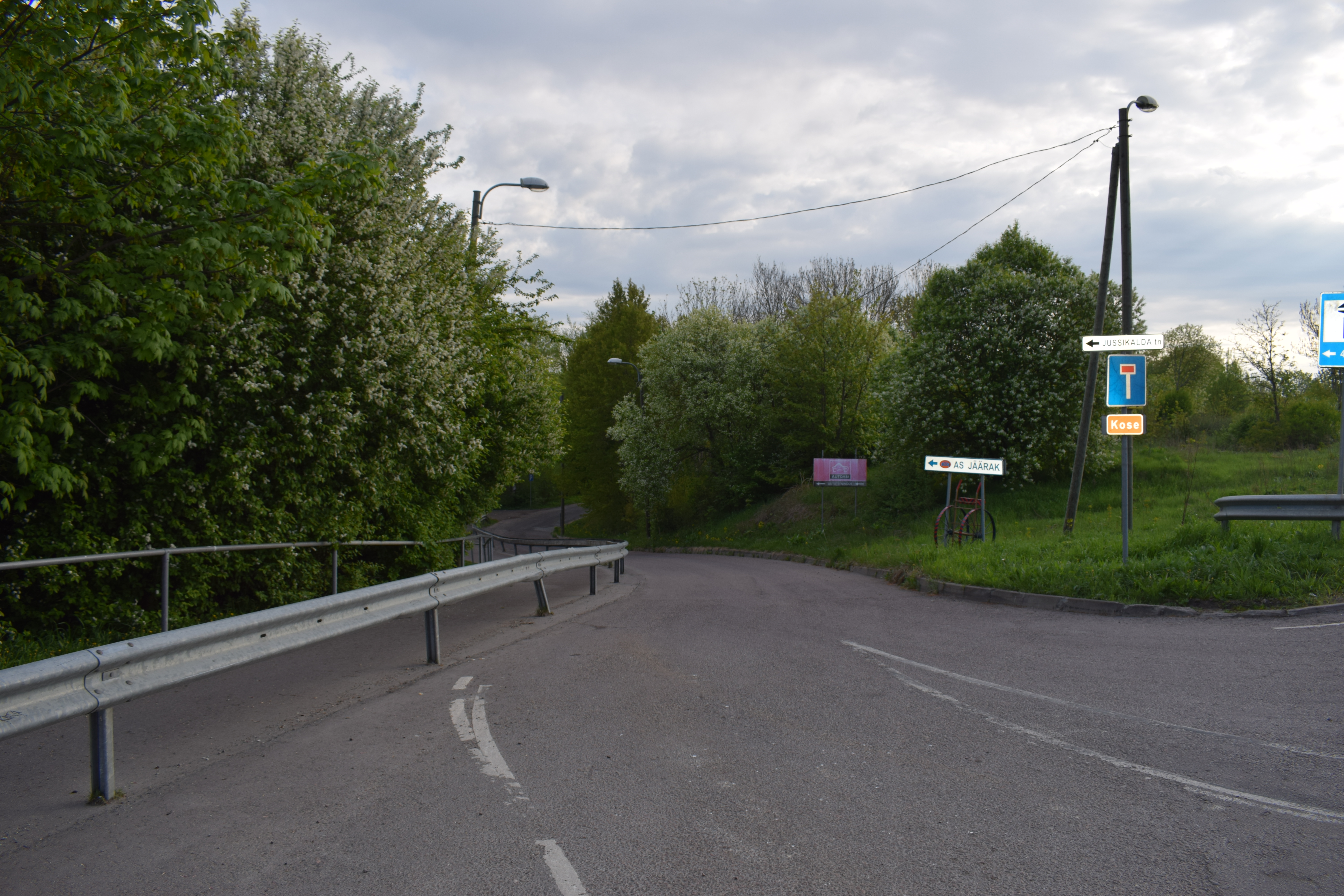 Jussikalda street